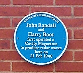 University of Birmingham - Poynting Physics Building - blue plaque to phyicists Randall and Boot